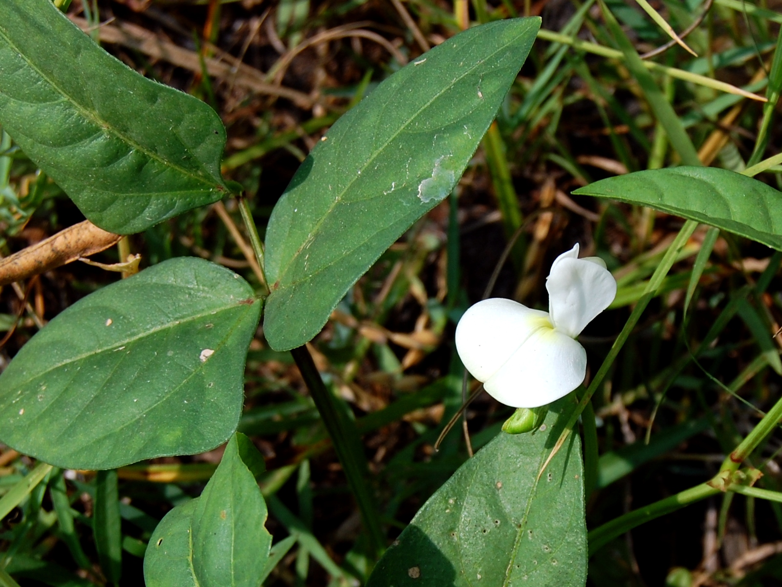 Cowpea Vigna unguiculata cultigroup Unguiculata, planted in Lumajang, East Java, Indonesia. Flower and leaves.